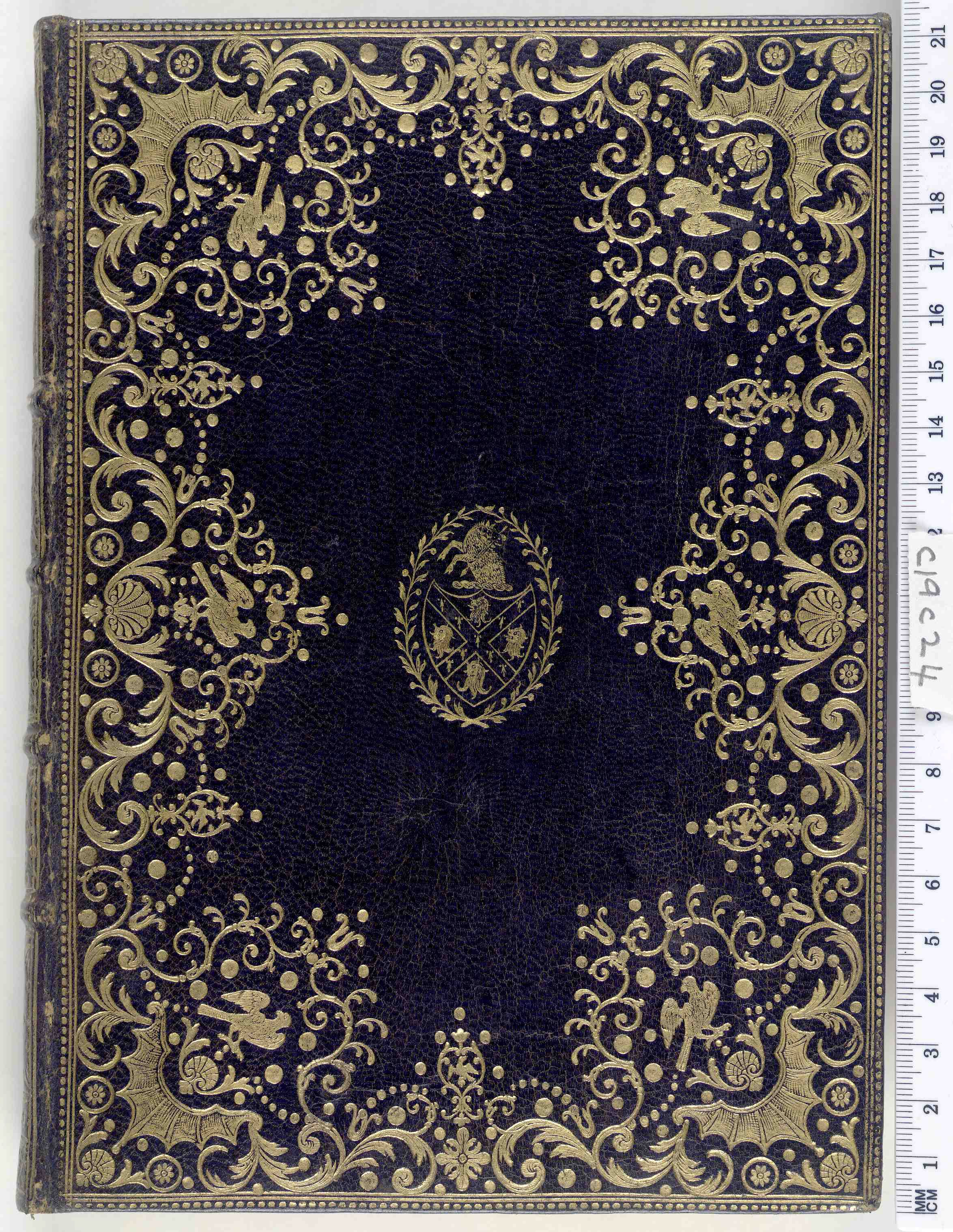 Style: Armorial|Dentelle|Bird motif|Bat wing motif; Caption: Upper cover; Colour: Black; Edge: Unspecified